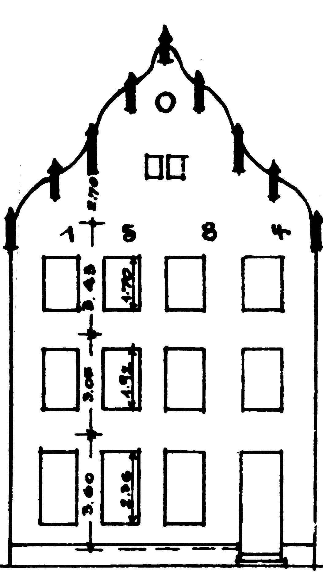 u